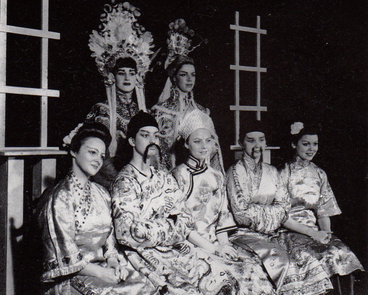 Photograph of the performance of Lady Precious Stream at Shimer College in 1941-1942, from the 1942 yearbook of Shimer College. Now a liberal arts college in Chicago with a Great Books curriculum, Shimer was then a four-year women's junior college in Mount Carroll, Illinois; consequently, all parts were played by women. Published in the school's 1942 yearbook, which does not contain a copyright notice. Additionally in the public domain due to the terms of dedication of the Shimer College Collection (which includes a copy of this yearbook) to NIU in 1979, which vested literary rights in the collection in the public.